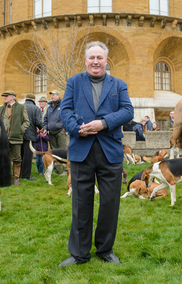 David Manners, 11th Duke of Rutland